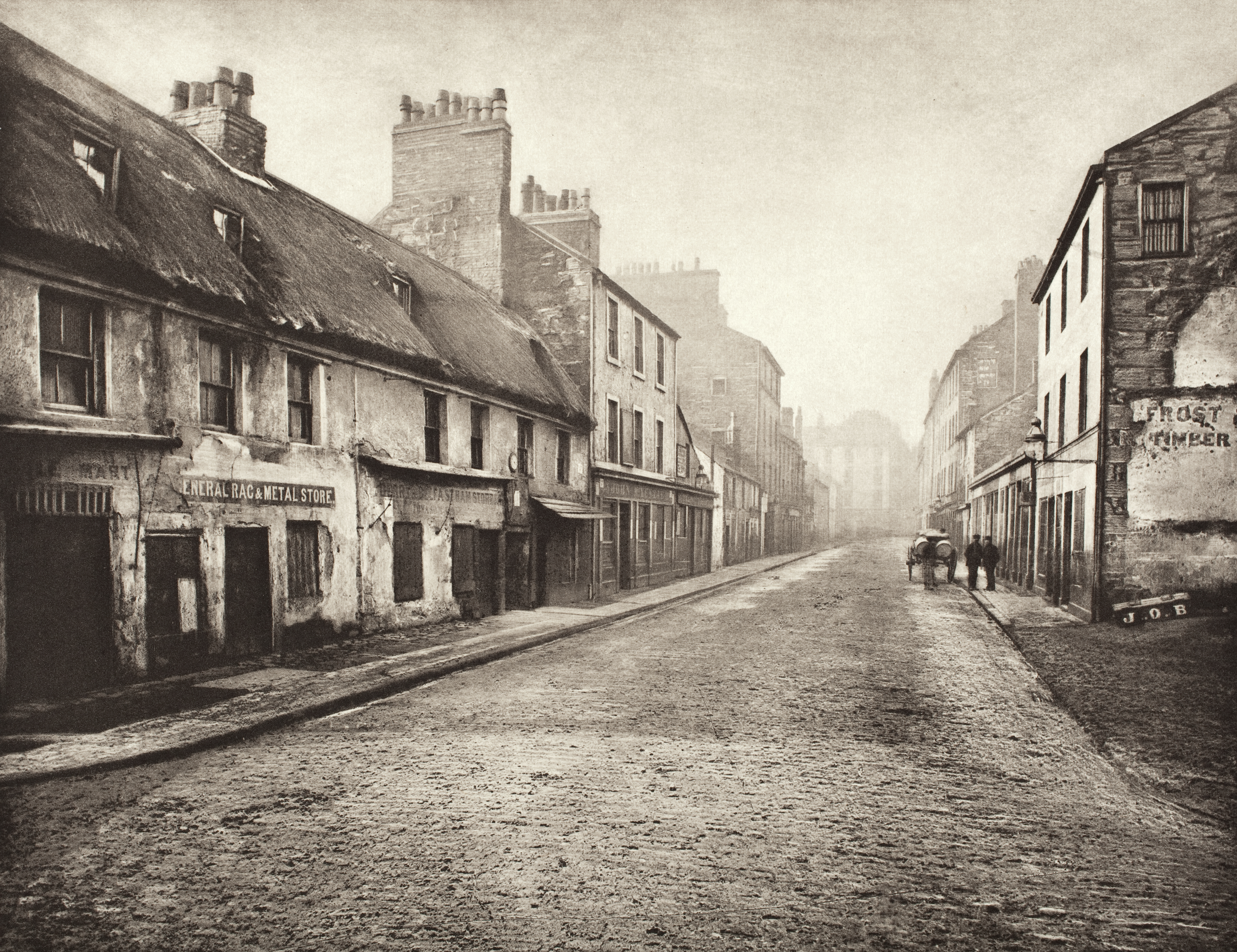 Scotland, 1868, printed 1900 Photographs Photogravure The Marjorie and Leonard Vernon Collection, gift of The Annenberg Foundation, acquired from Carol Vernon and Robert Turbin (M.2008.40.98.35) Photography